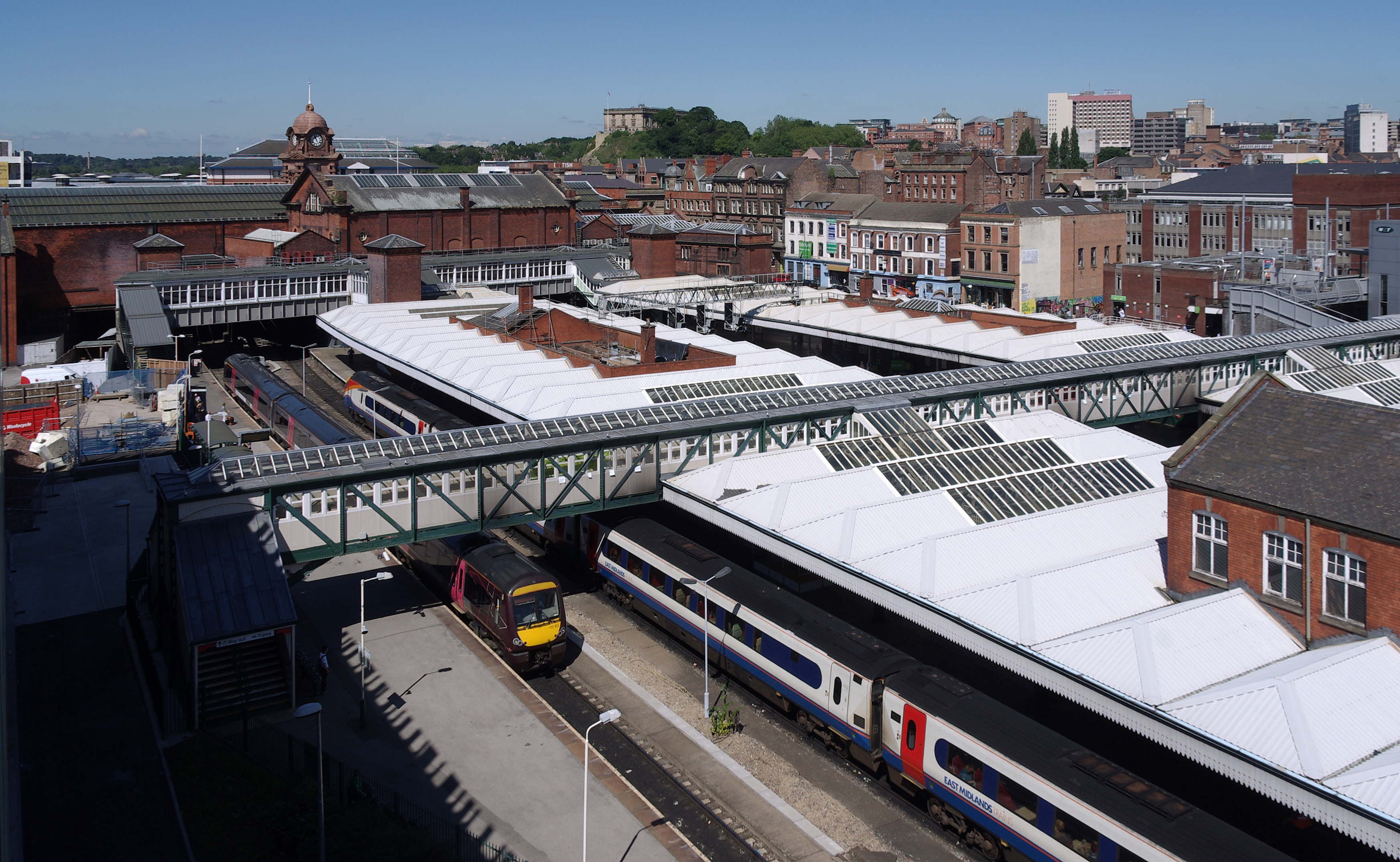 View of Nottingham railway station from the top deck of the new car park. View of Nottingham railway station from the top deck of the new car park. Visible is an East Midlands Trains class 222 "Meridian" DEMU and CrossCountry class 170 "Turbostar" DMU 170103.